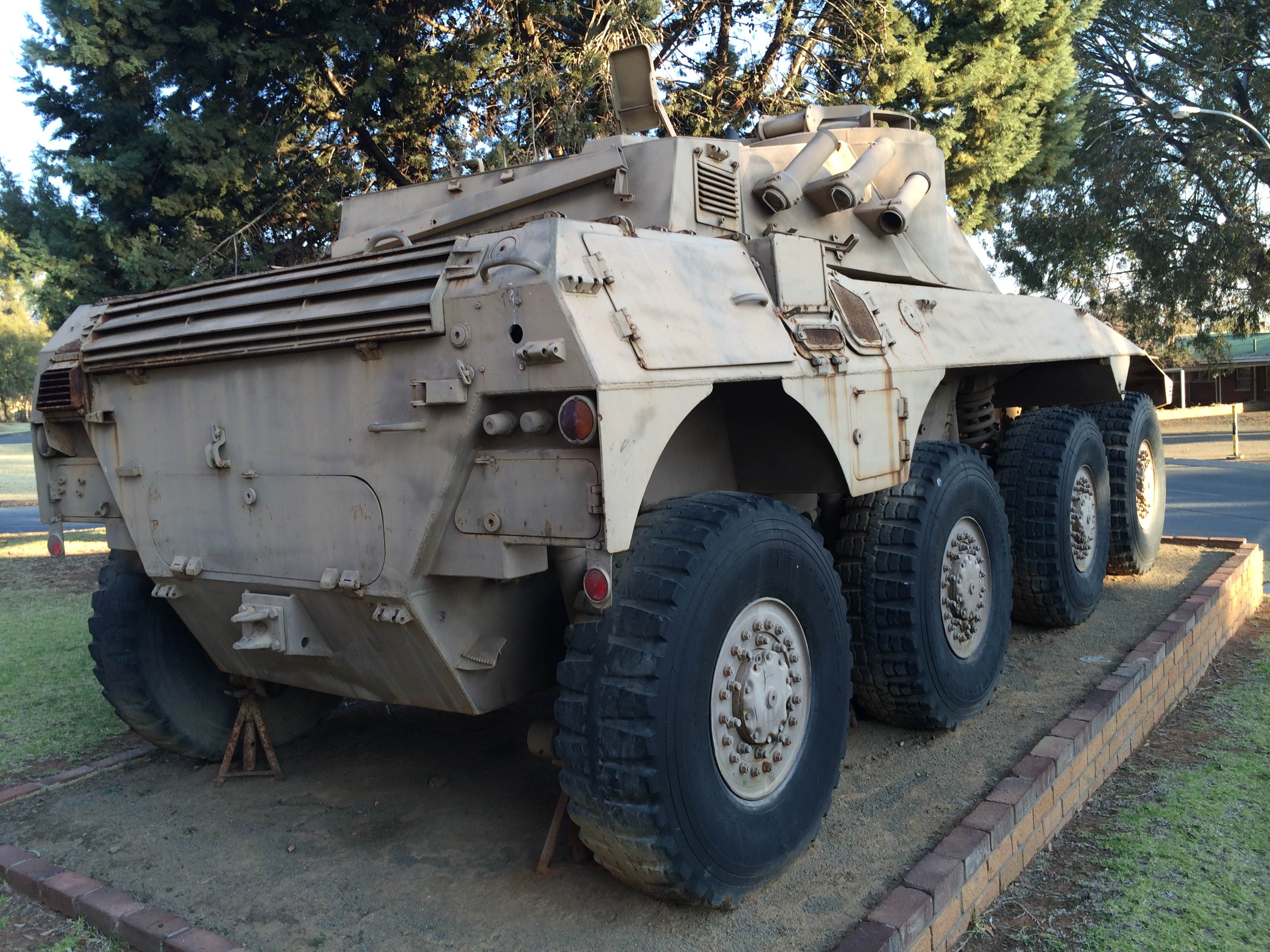 Rooikat armoured car at 1 Tank Regiment, Tempe Base - Bloemfontein.